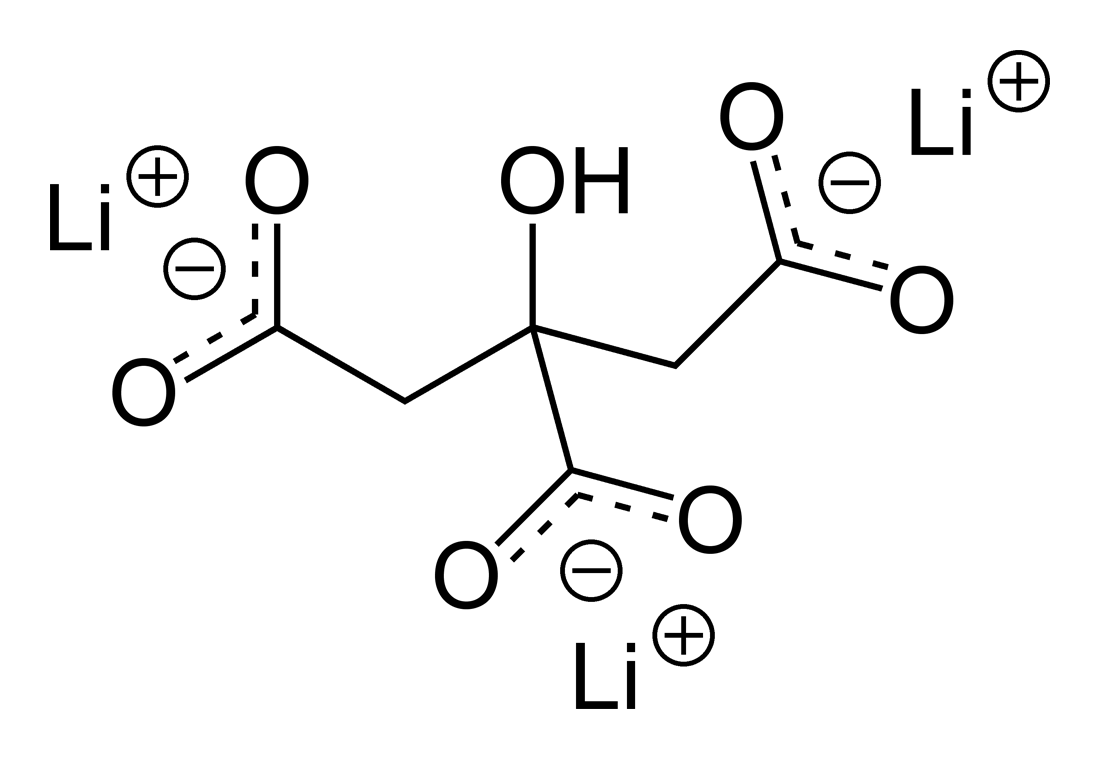 Skeletal formula of lithium citrate